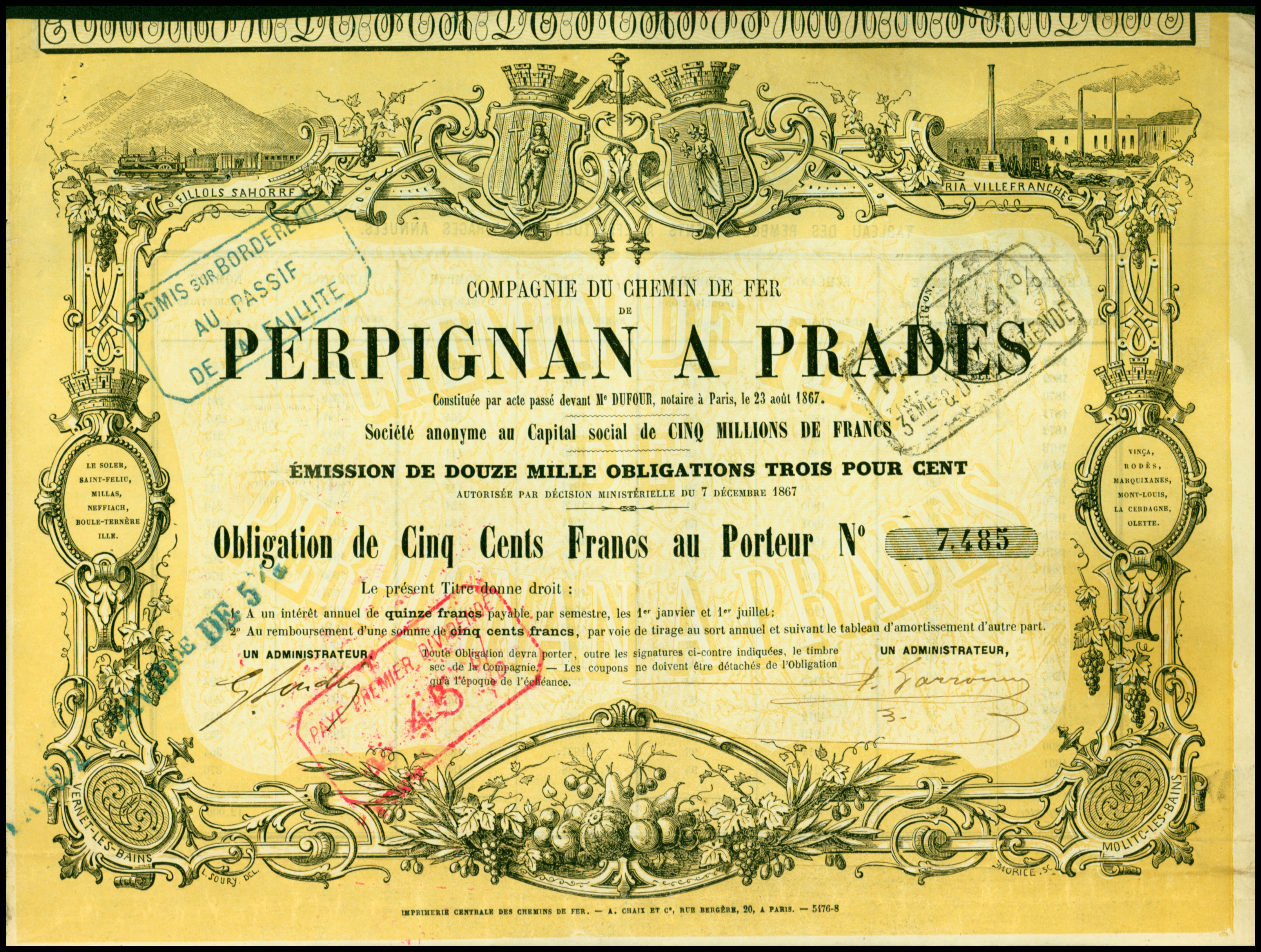 Bond of the Compagnie du chemin de Fer de Perpignan à Prades, issued 7. December 1867